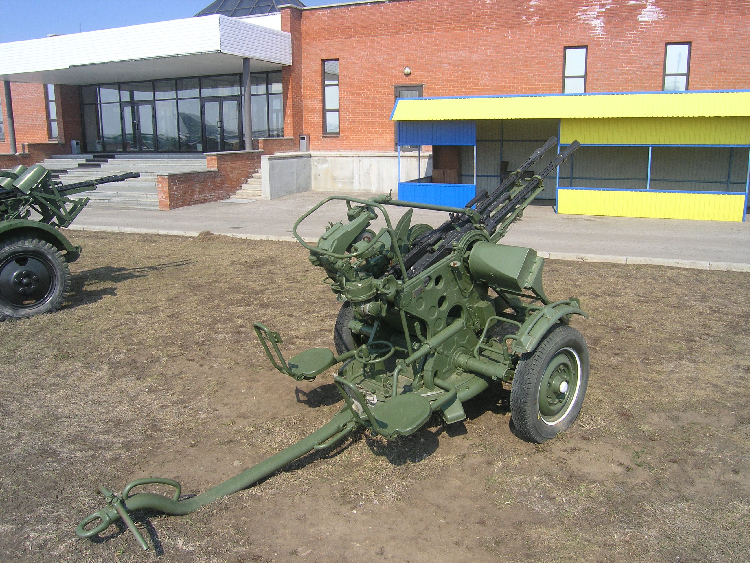 ZPU-2 in Technical museum Togliatti